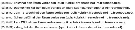 netsplit on freenode